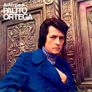 Palito Ortega